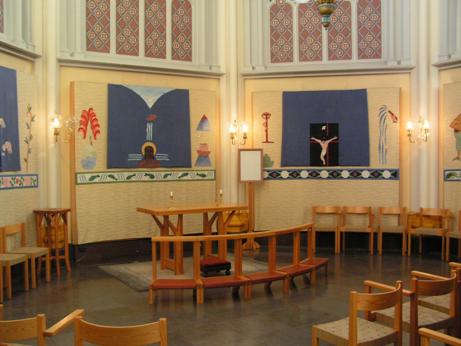 Church of Umeå, Sweden, Mini church